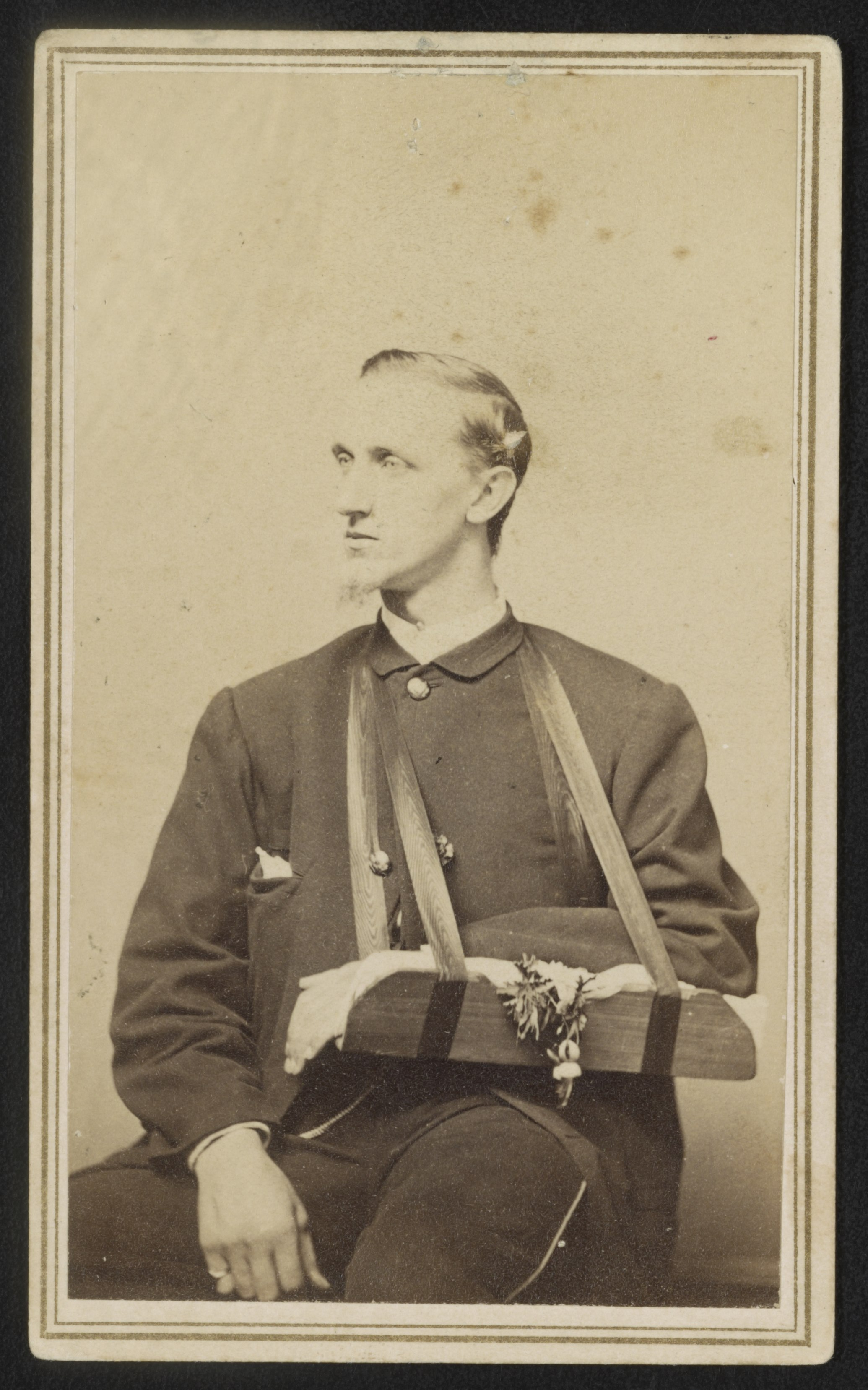 Title: Major General William Francis Bartlett of Co. I, 20th Massachusetts Infantry Regiment, 49th Massachusetts Infantry Regiment, and 57th Massachusetts Infantry Regiment in uniform with arm in sling] / Dewey's Gallery, 47 North St., Pittsfield, Mass Abstract/medium: 1 photograph : albumen print on card mount ; mount 11 x 6 cm (carte de visite format)